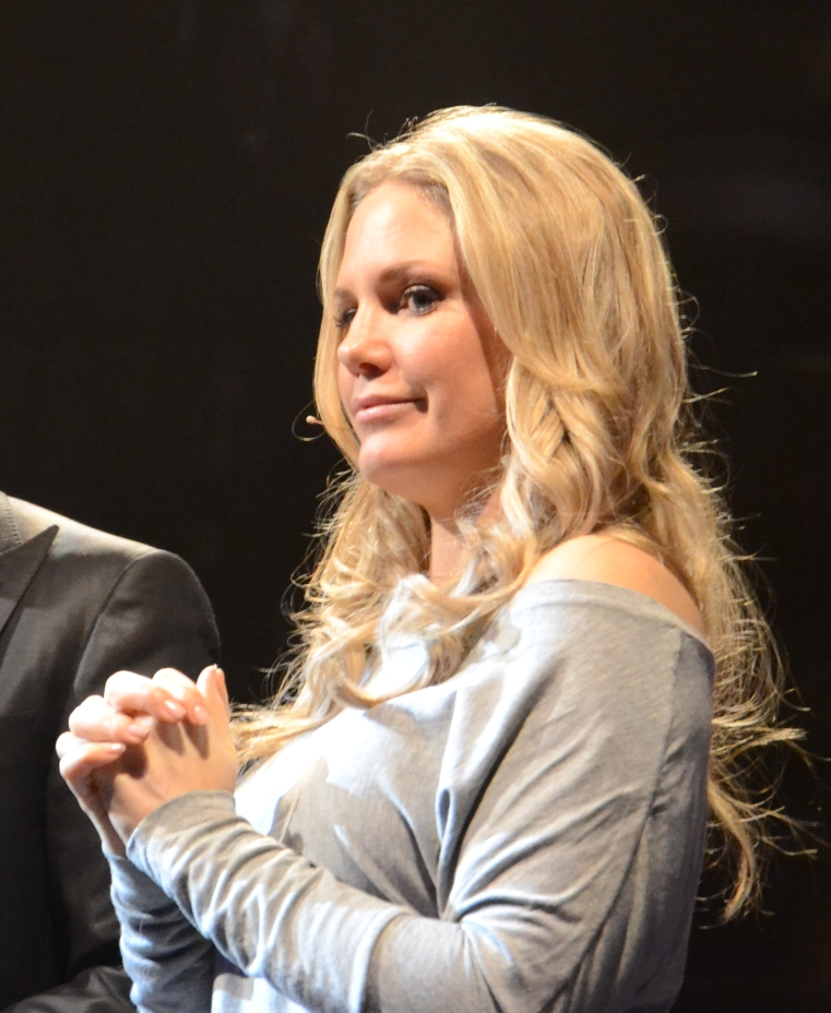 Terri Colombino at the ATWT farewell event in Hilversum (the Netherlands)